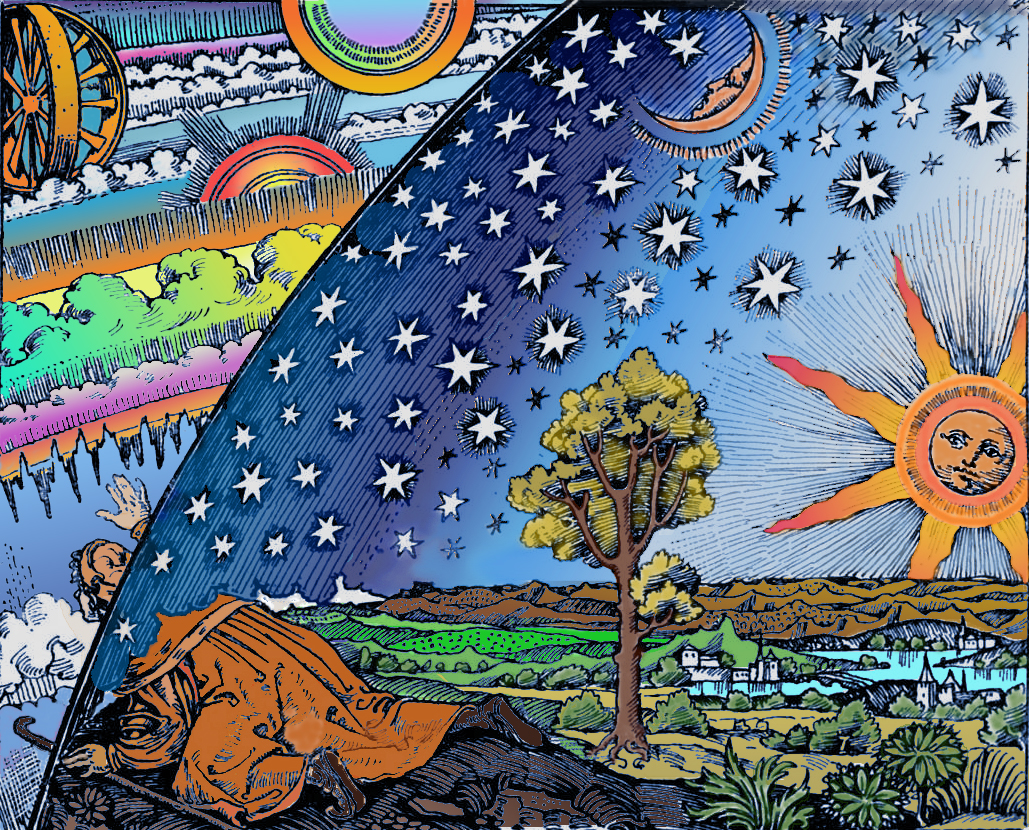 The Flammarion engraving is a wood engraving by an unknown artist that first appeared in Camille Flammarion's L'atmosphère: météorologie populaire (1888). The image depicts a man crawling under the edge of the sky, depicted as if it were a solid hemisphere, to look at the mysterious Empyrean beyond. The caption translates to "A medieval missionary tells that he has found the point where heaven and Earth meet..."